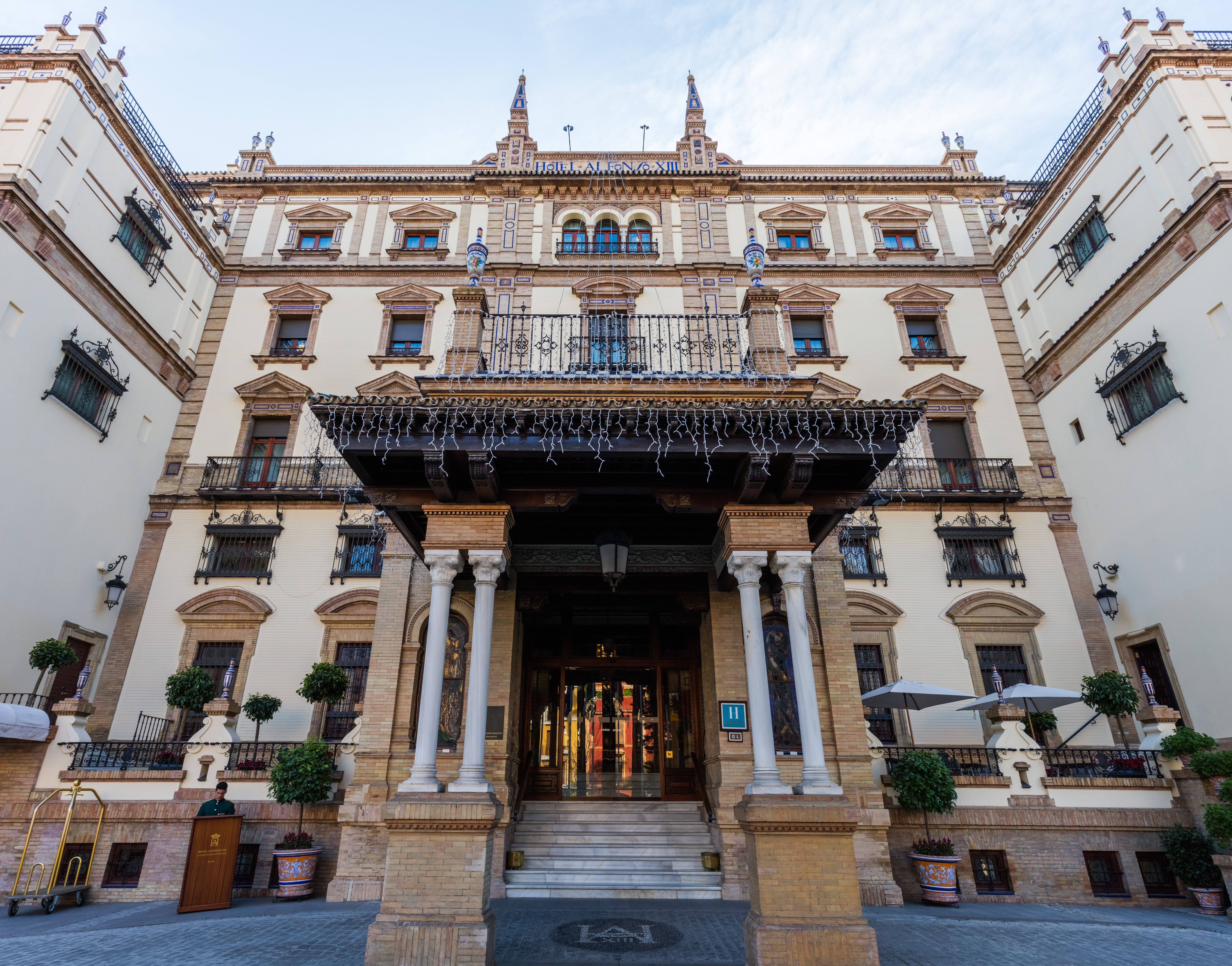 Alfonso 13th hotel, Seville, Spain